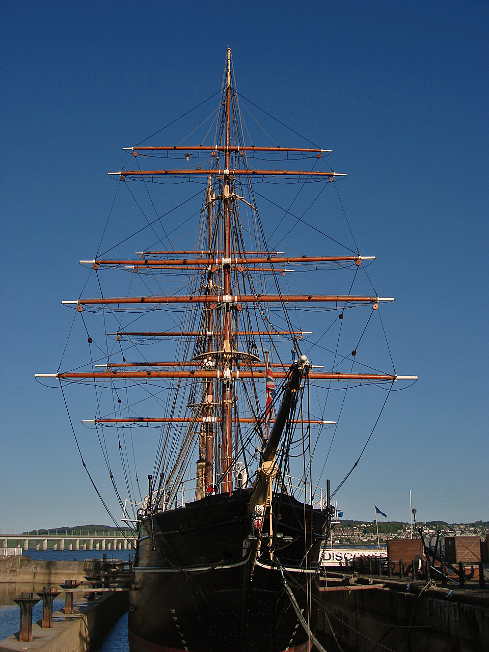 RSS Discovery